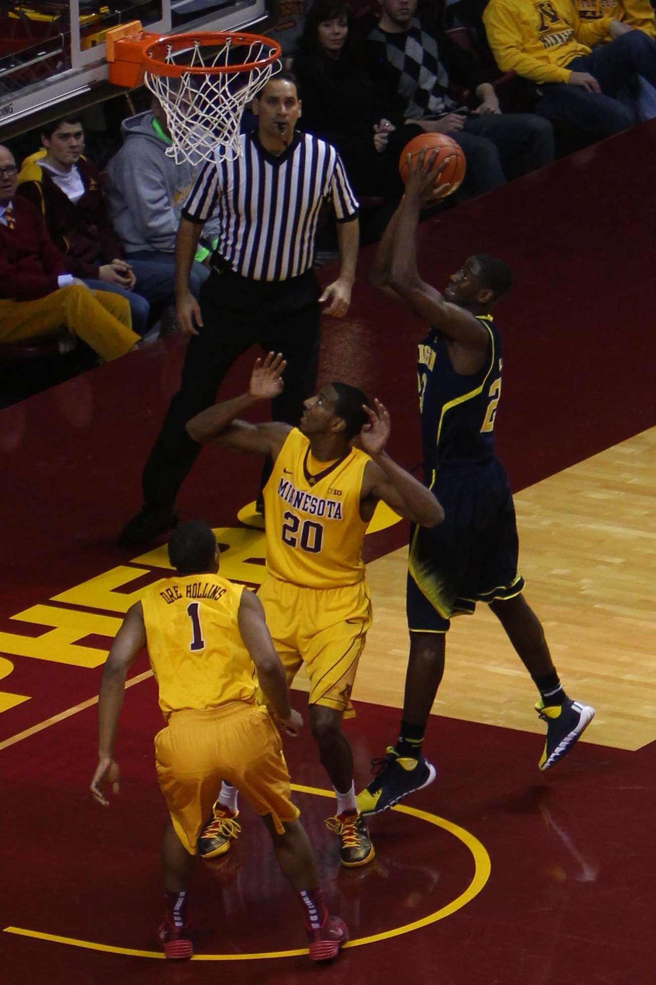 Caris LeVert at Williams Arena